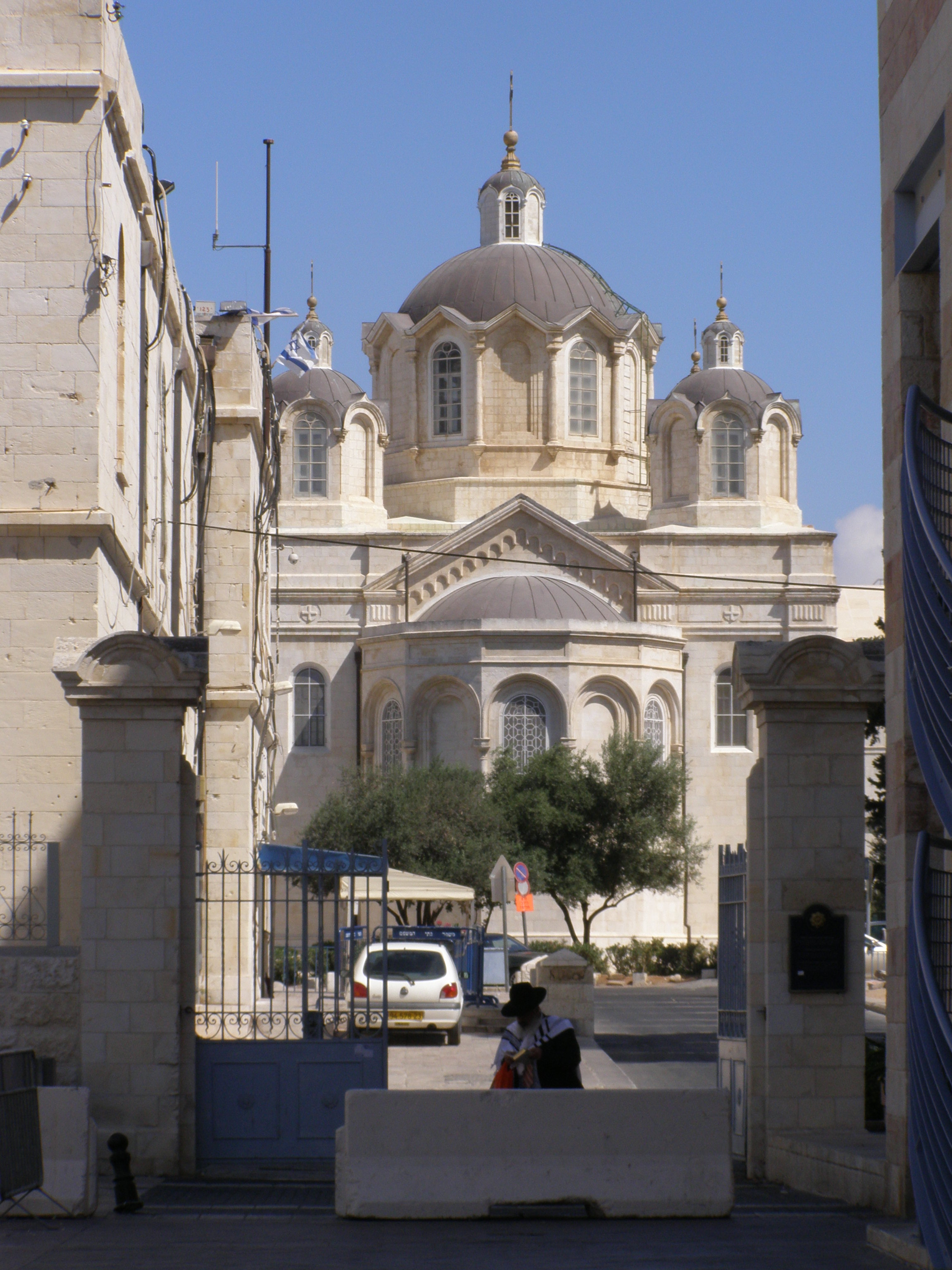 Jerusalem, Russian Compound, the Holy Trinity church